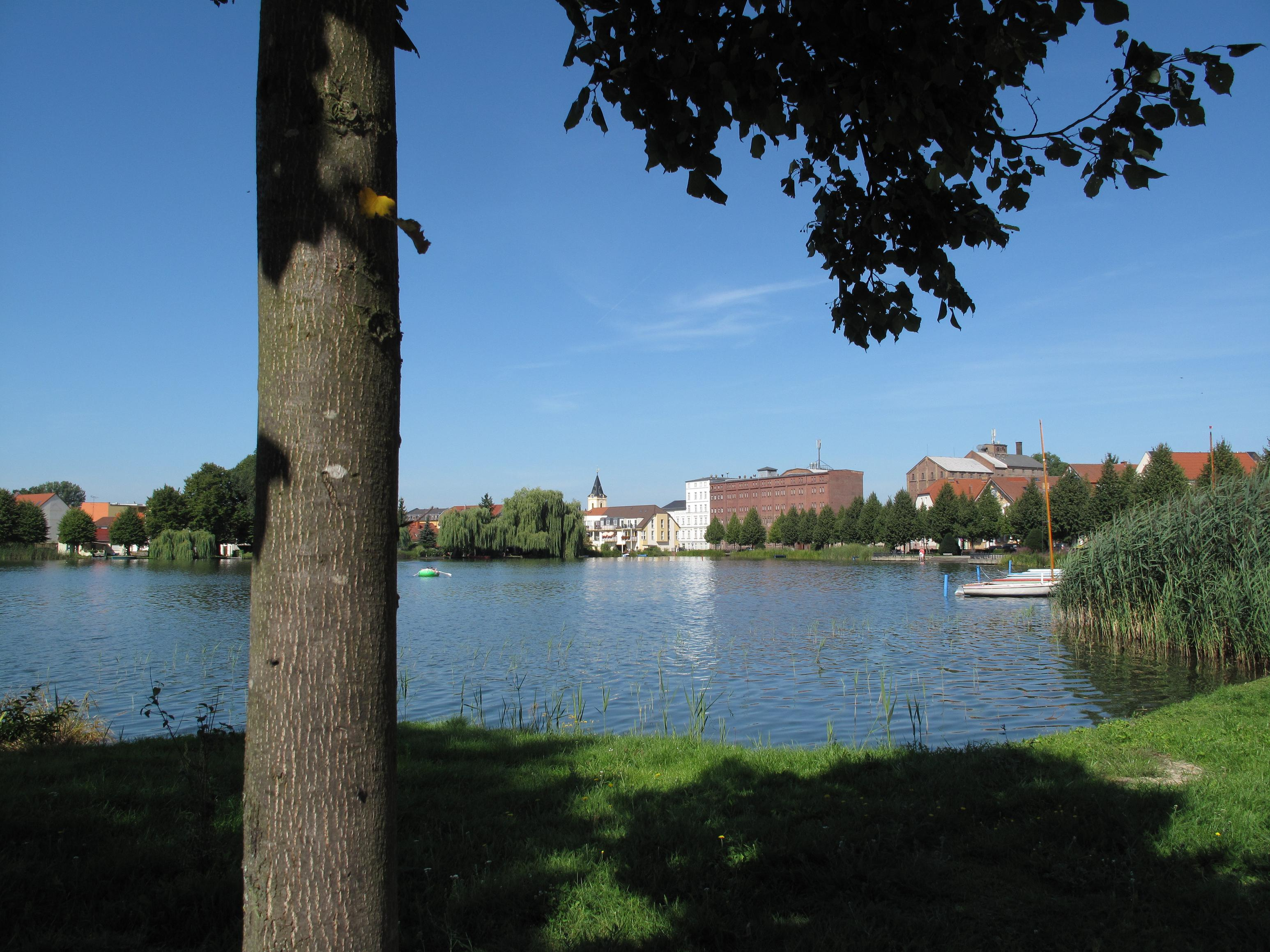 View from the eastern bank of the Großer Müllroser See to Müllrose. The lake is situated between the town Müllrose in the north and the municipality Mixdorf in the south in the District Oder-Spree, Brandenburg, Germany. The lake covers 1,32 km² and is a part of the Schlaube Valley Nature Park.